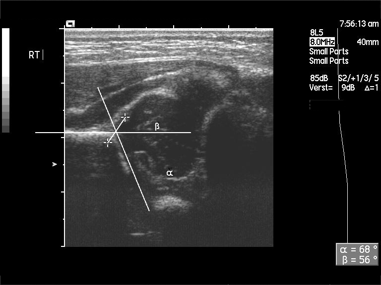 Ultrasound of a human newborn normal right hip (type Ib according to Graf R).